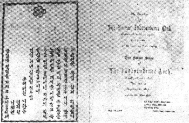 the Groundbreaking ceremony invitation card of Korean Independence Gate